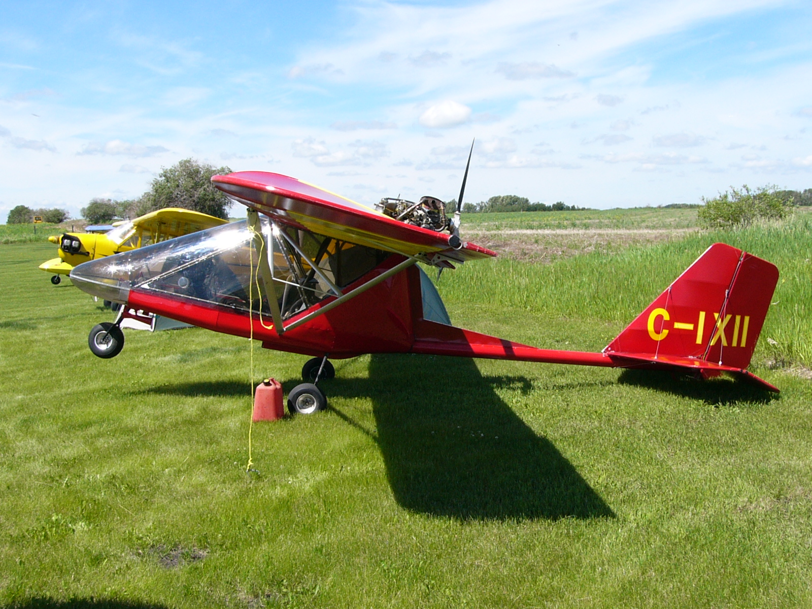 A Rans S-12XL Airaile at the COPA Convention Wetaskiwin, Alberta